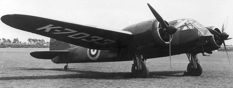 The prototype of Bristol Blenheim Mk.I bomber (with Mercury VI engines, changed on further aircraft).